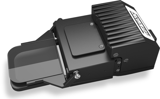 PD-18 Image